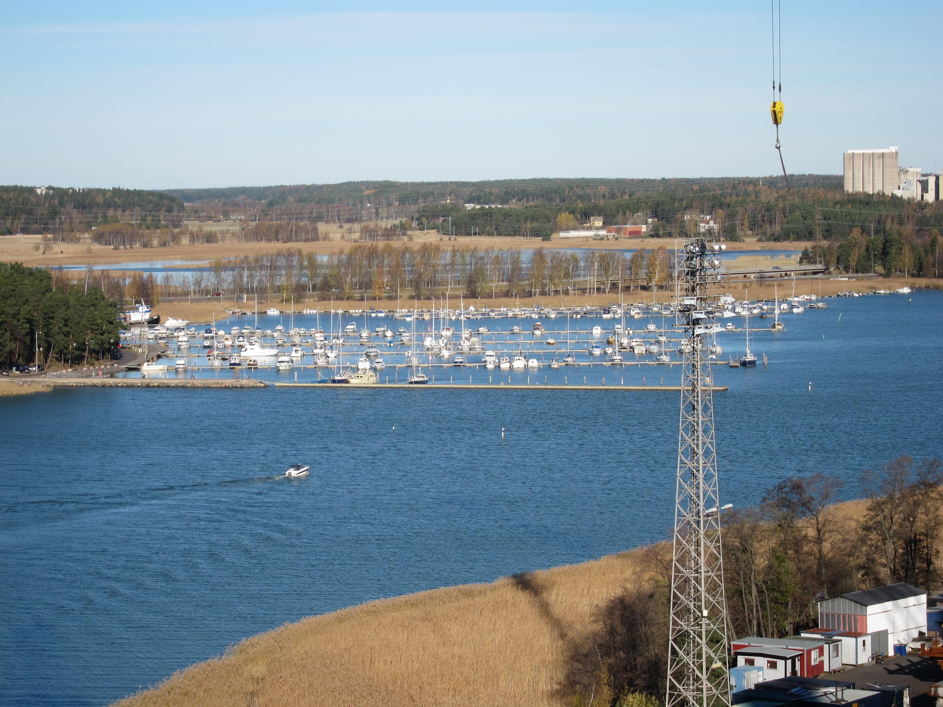 View from MS Allure of the Seas at STX Europe shipyard Turku, Finland. In the Raisionlahti bay grow much Phragmites (Common reed) (Phragmites australis).